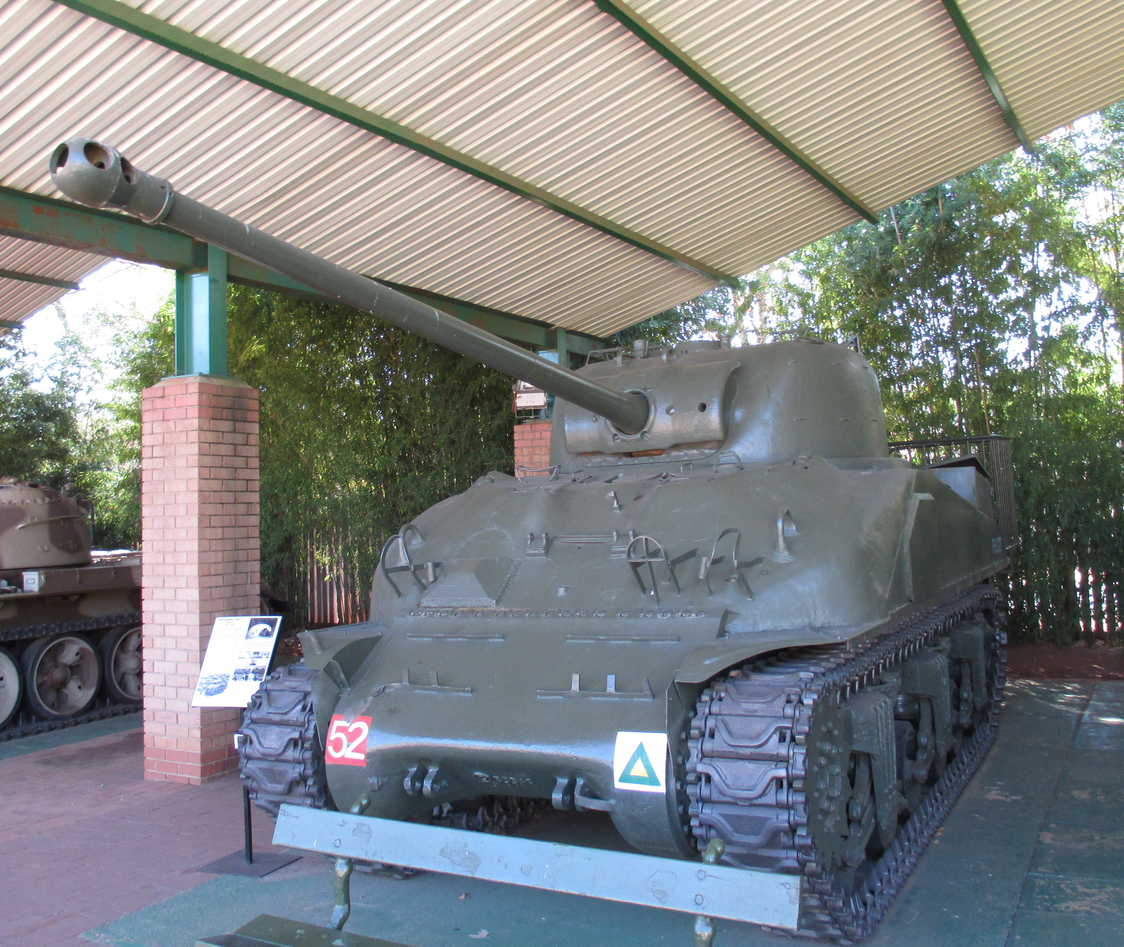 Description: Retired Sherman Firefly at the South African National Museum of Military History, Johannesburg.